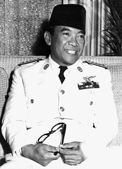 Soekarno, the president Indonesia, visiting Fidel Castro in Havana, Cuba, in 1960.